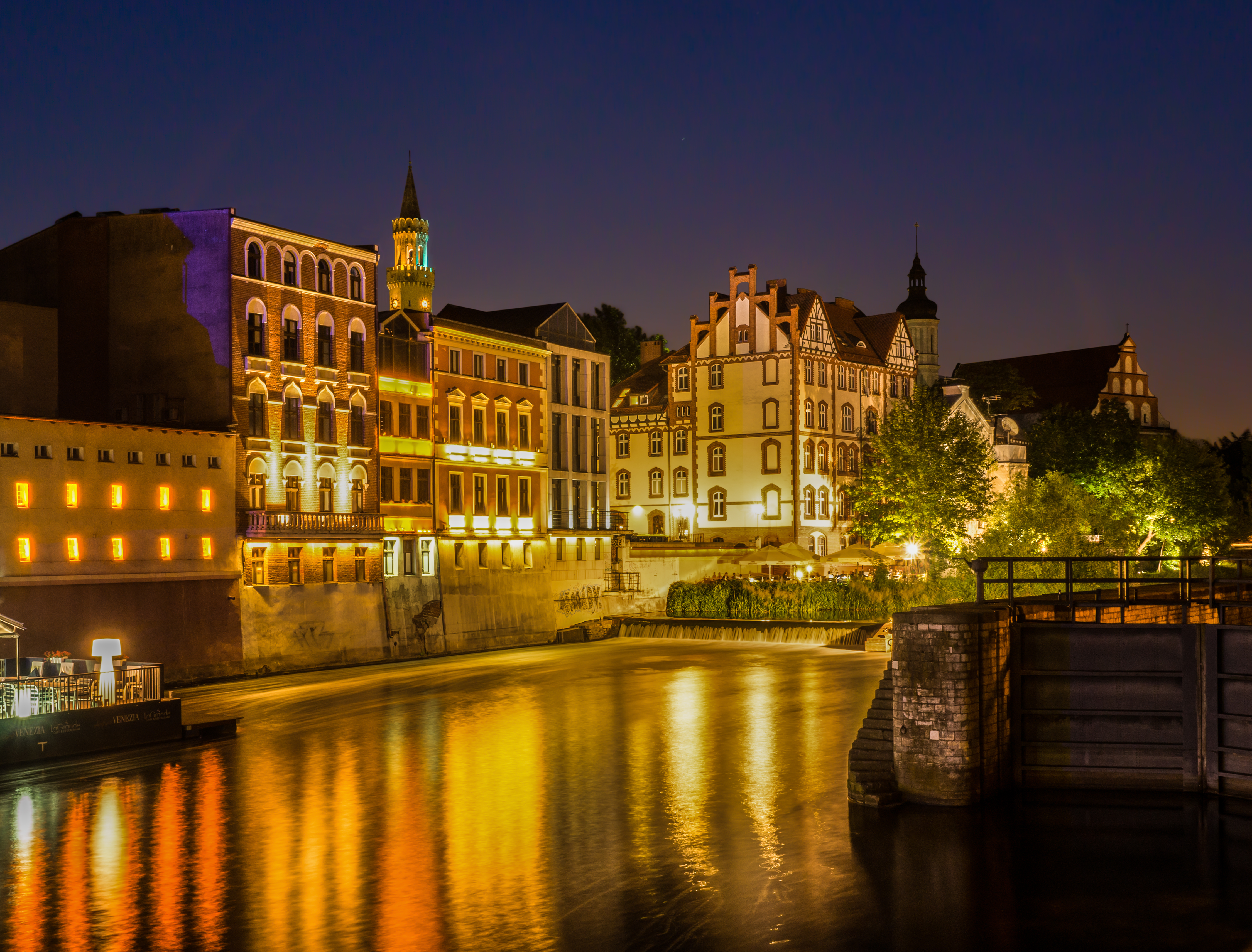 "Venice of Opole", Poland